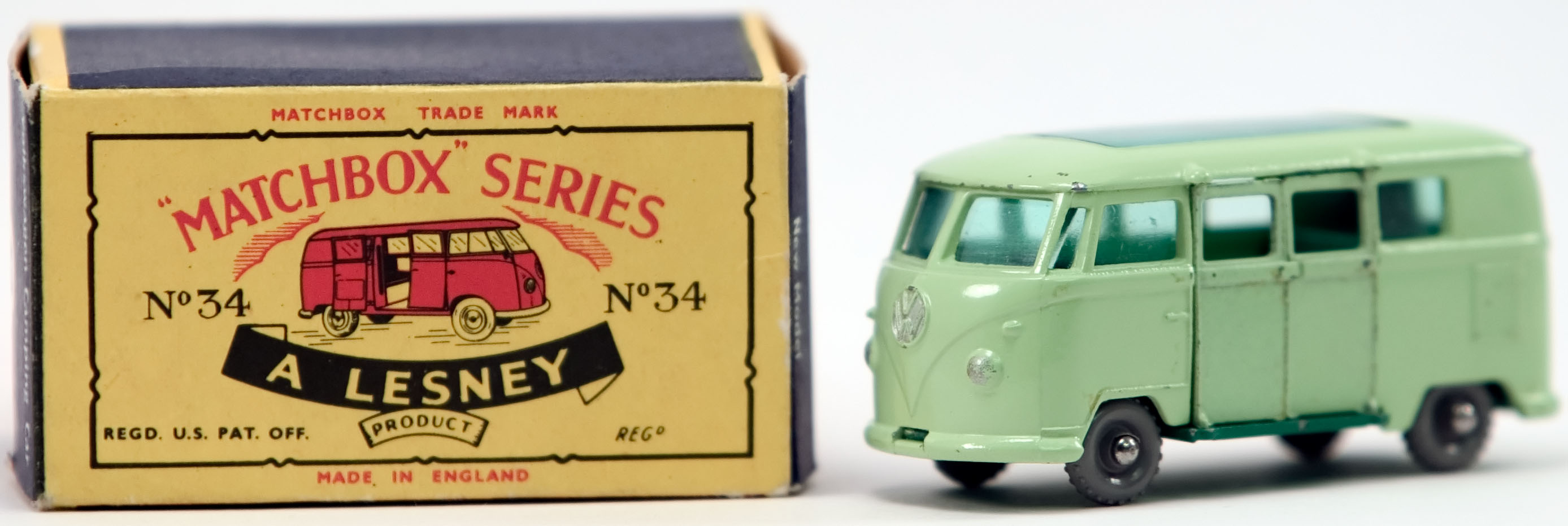 Lesney bus number 34